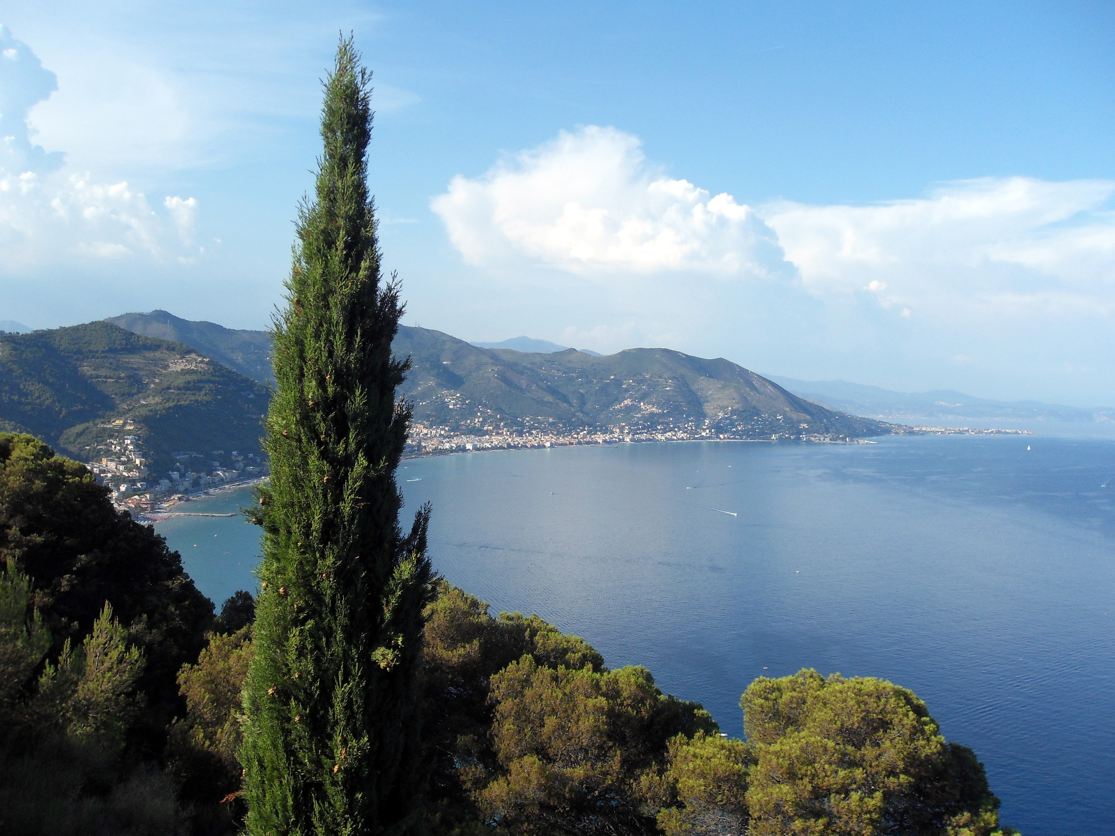 Alassio from Capo Mele